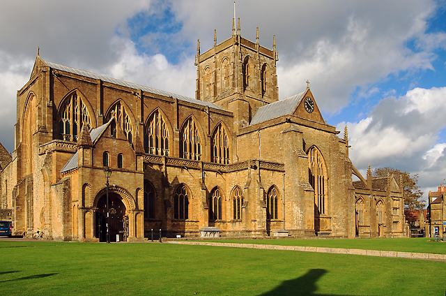 Sherborne Abbey